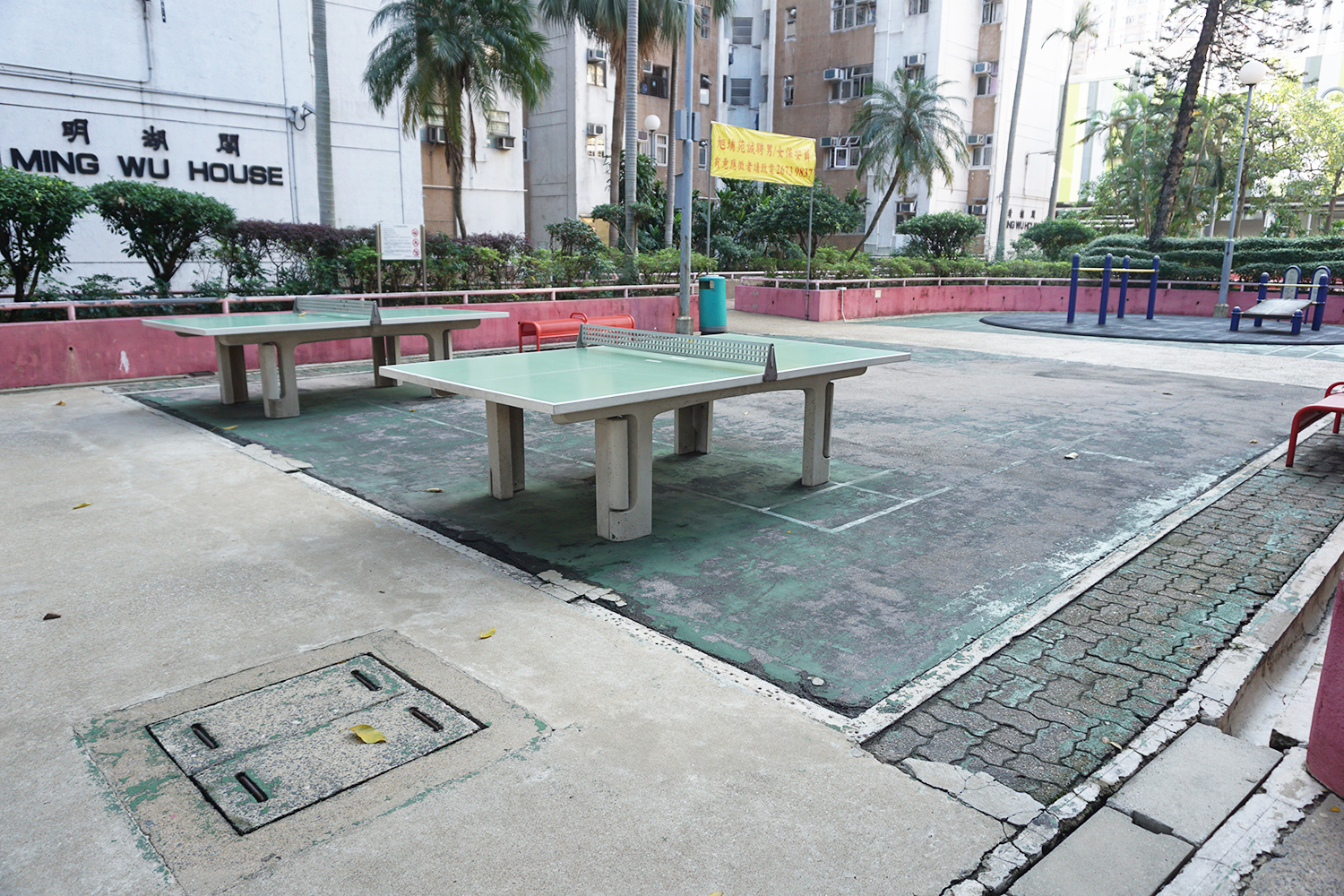 Yuk Po Court in Sheung Shui, Hong Kong.